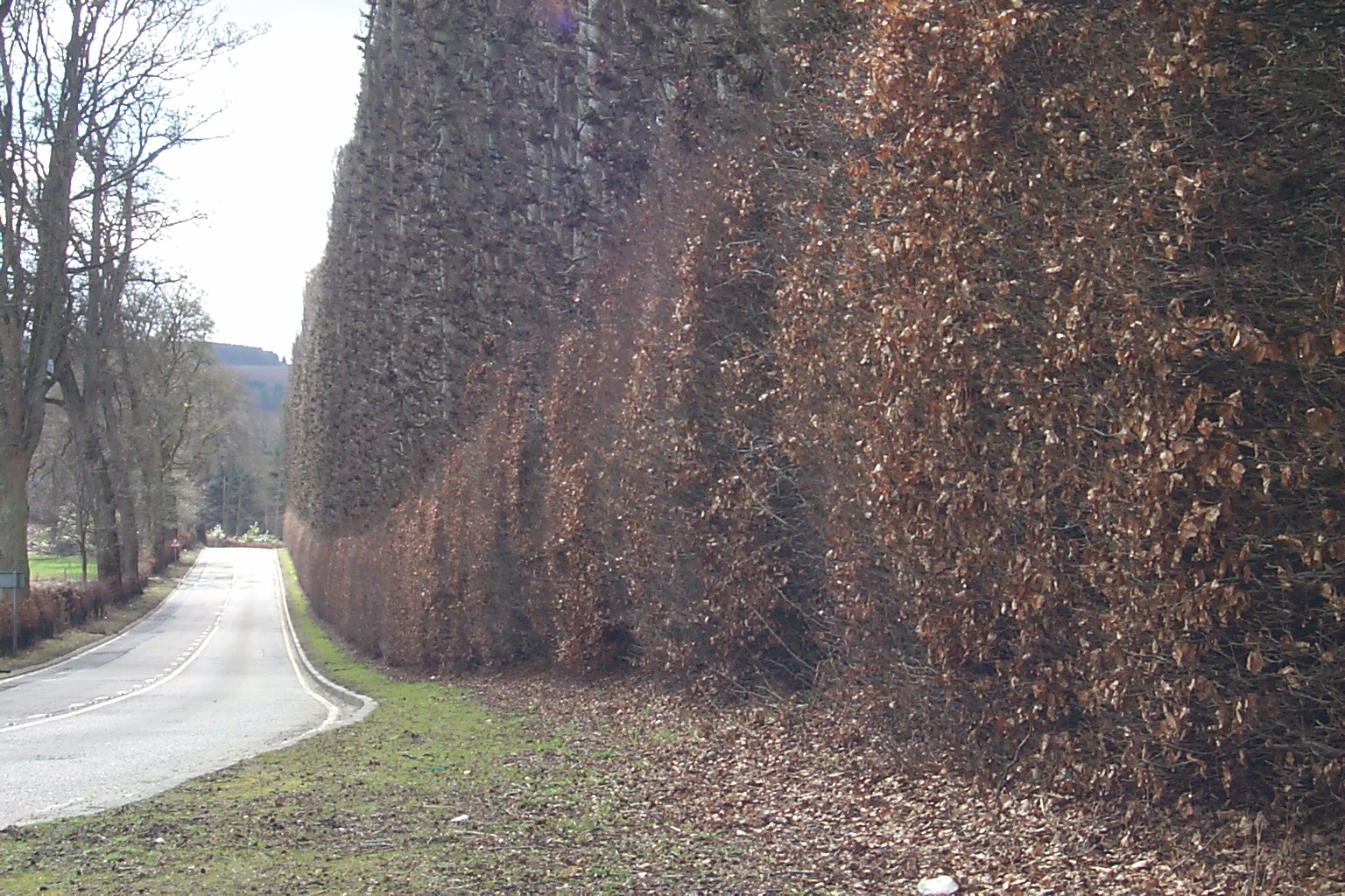 Meikleour Beech Hedge from the Spring of 2001